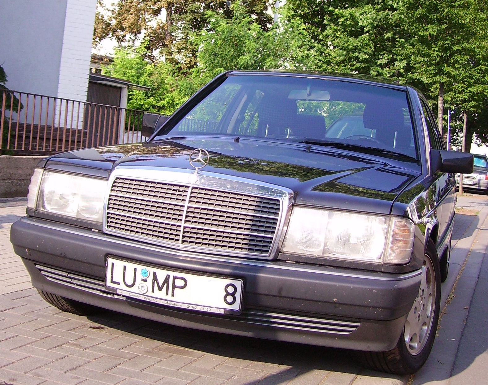 car in Ludwigshafen, Germany (July 2006)